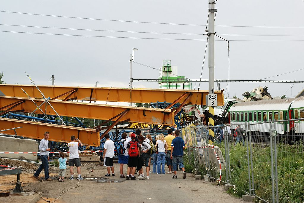 Train accident in Studénka